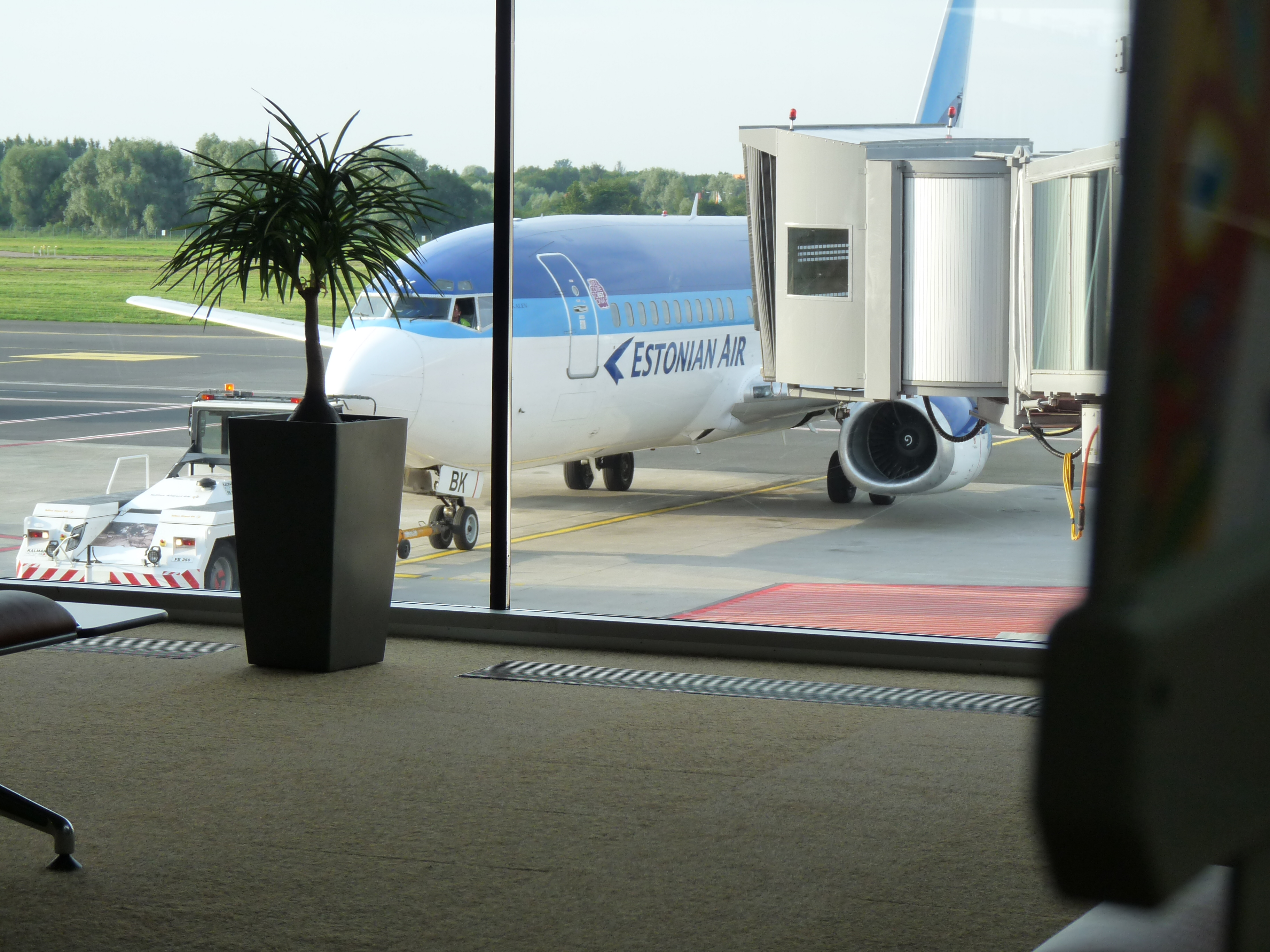 Preparing to boarding